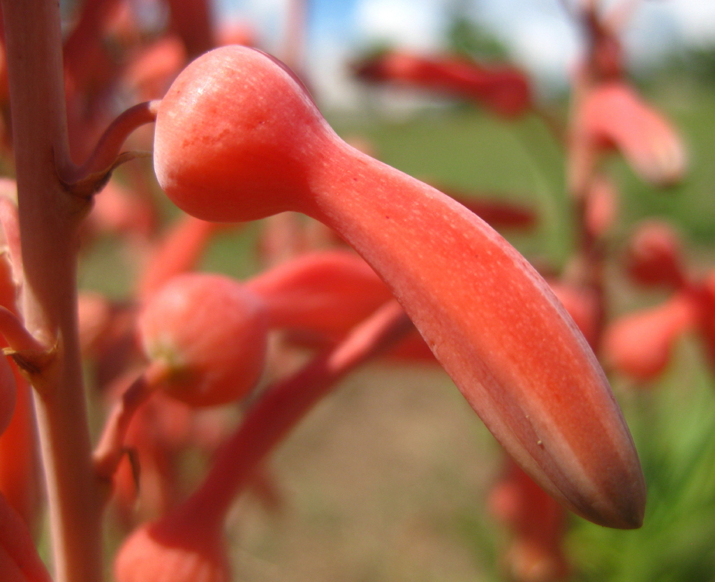 Close-up of a flower of Aloe zebrina in the garden of medicinal plants of UCAMA (small-scale farmers' union of Manica province). Leaf gel is applied on wounds, like in the case of Aloe vera. Leaves are commonly used in this province to treat several poultry diseases. The effect is not very reliable, though, in contrast to several other Aloe species.